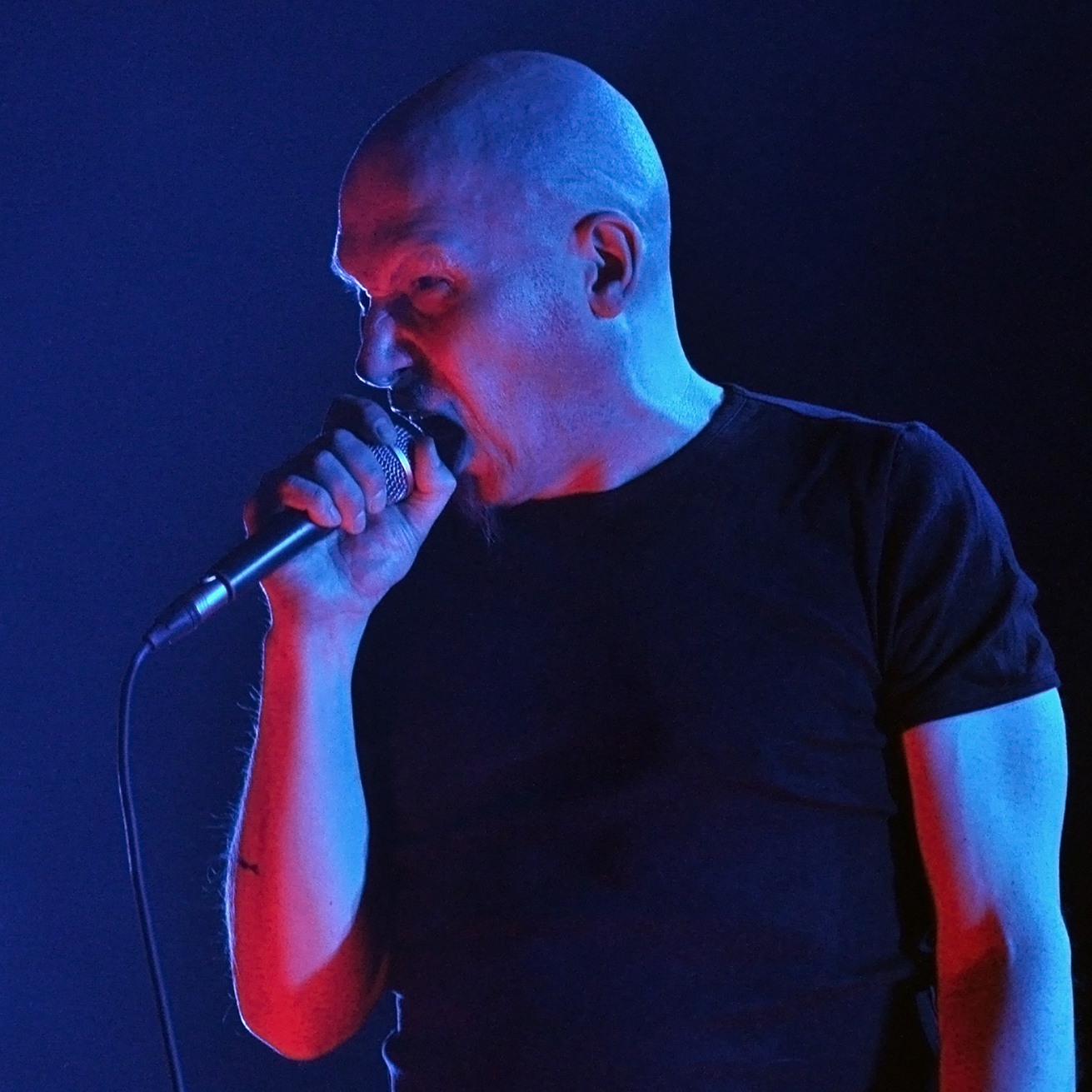 Mika Luttinen, the singer of Impaled Nazarene, at the Kings Of Black Metal in Alsfeld (Germany), on the 21st of April 2012.